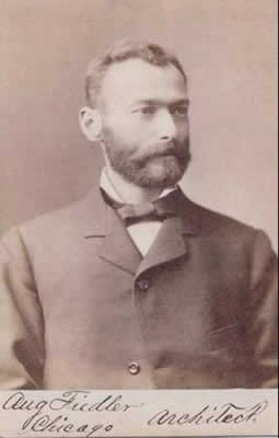 image of the Chicago architect William August Fiedler, c. 1880